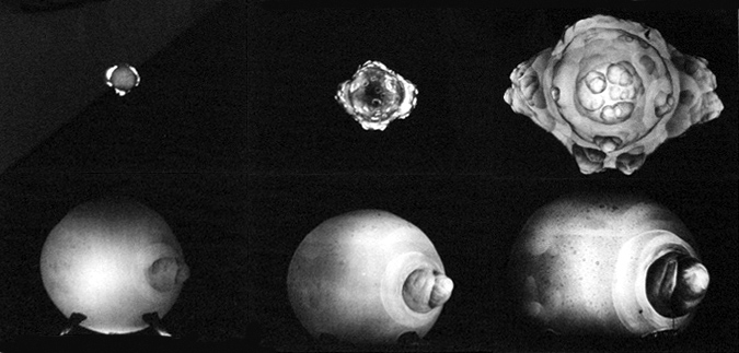 Operation Redwing - Mohawk shot. Rapatronic picture.